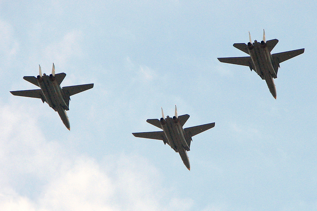 Iranian Tomcats formation flight with wings fully spread near Tehran.